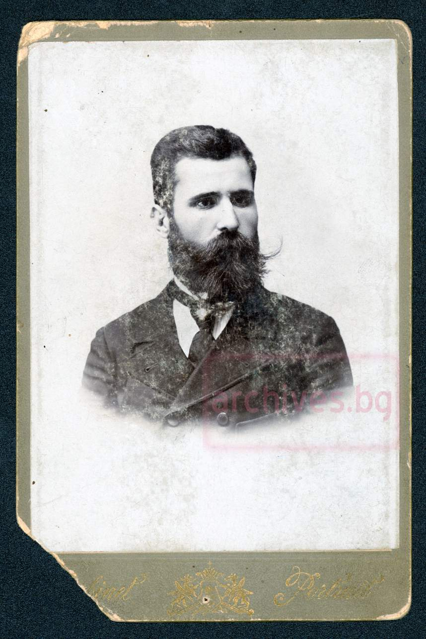 portrait of Slaveiko Arsov